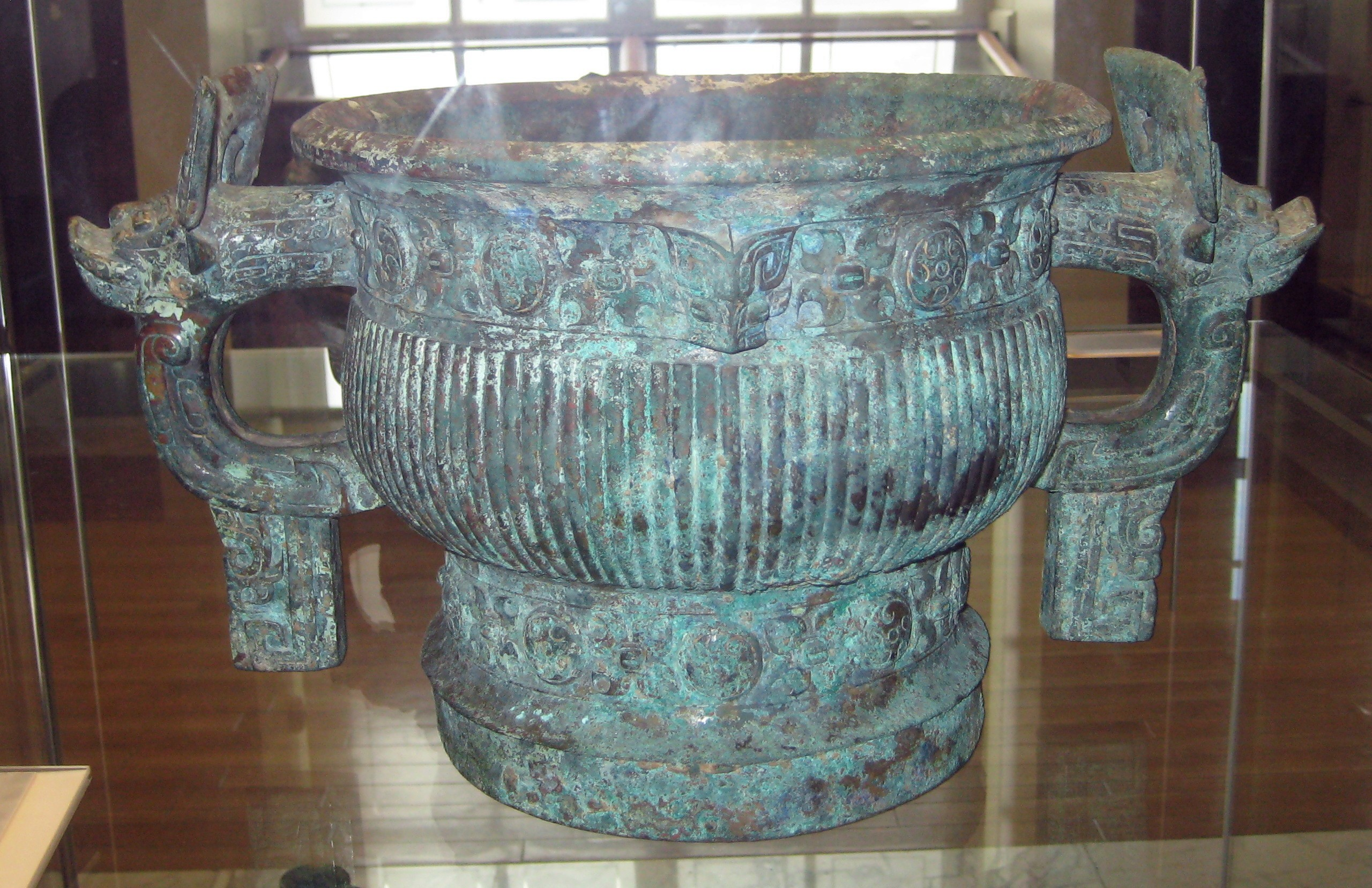 Western Zhou bronze ritual vessel, known as the "Kang hou gui".